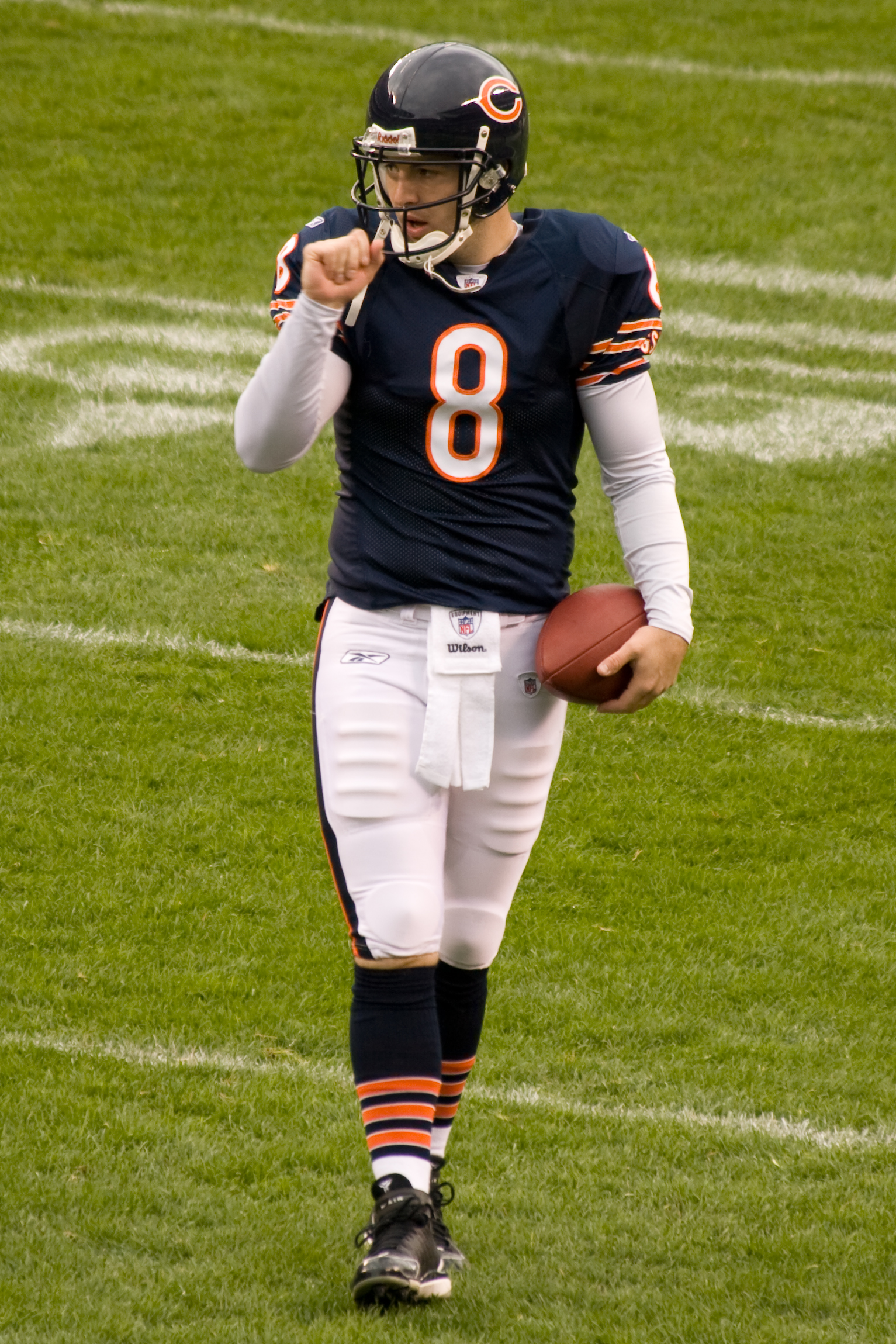 Rex Grossman of the Chicago Bears